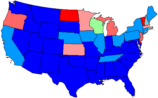 Summary of party control of U.S. house seats in the 74th United States Congress following election. Stripes indicate a tie between two or more parties. Legend: 80.1-100% Democratic seat majority 60.1-80% Democratic seat majority 60% or less Democratic seat plurality 60% or less Republican seat plurality 60.1-80% Republican seat majority 80.1-100% Republican seat majority 60% or less Farmer-Labor seat plurality 60.1-80% Progressive seat plurality